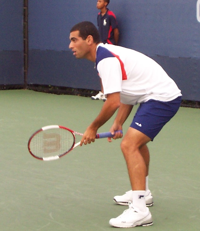 Andy Ram Playing Doubles At The 2006 U.S. Open